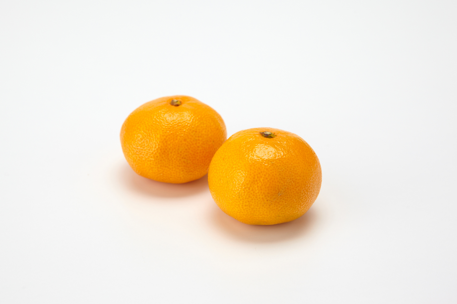 Cold hardy mandarin (Citrus unshiu)